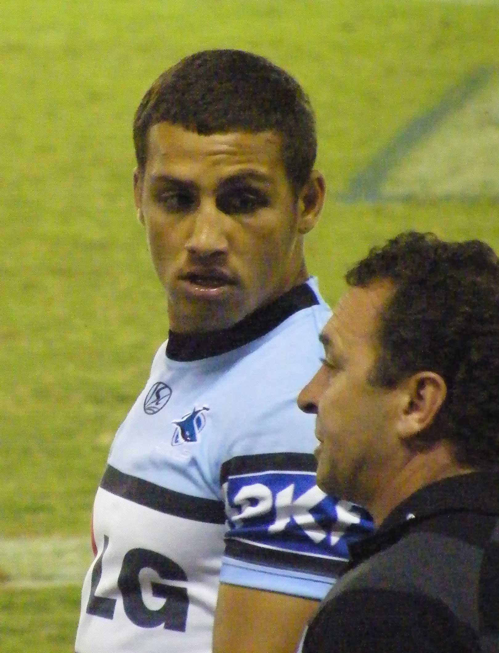 Cronulla centre Blake Ferguson with coach Ricky Stuart